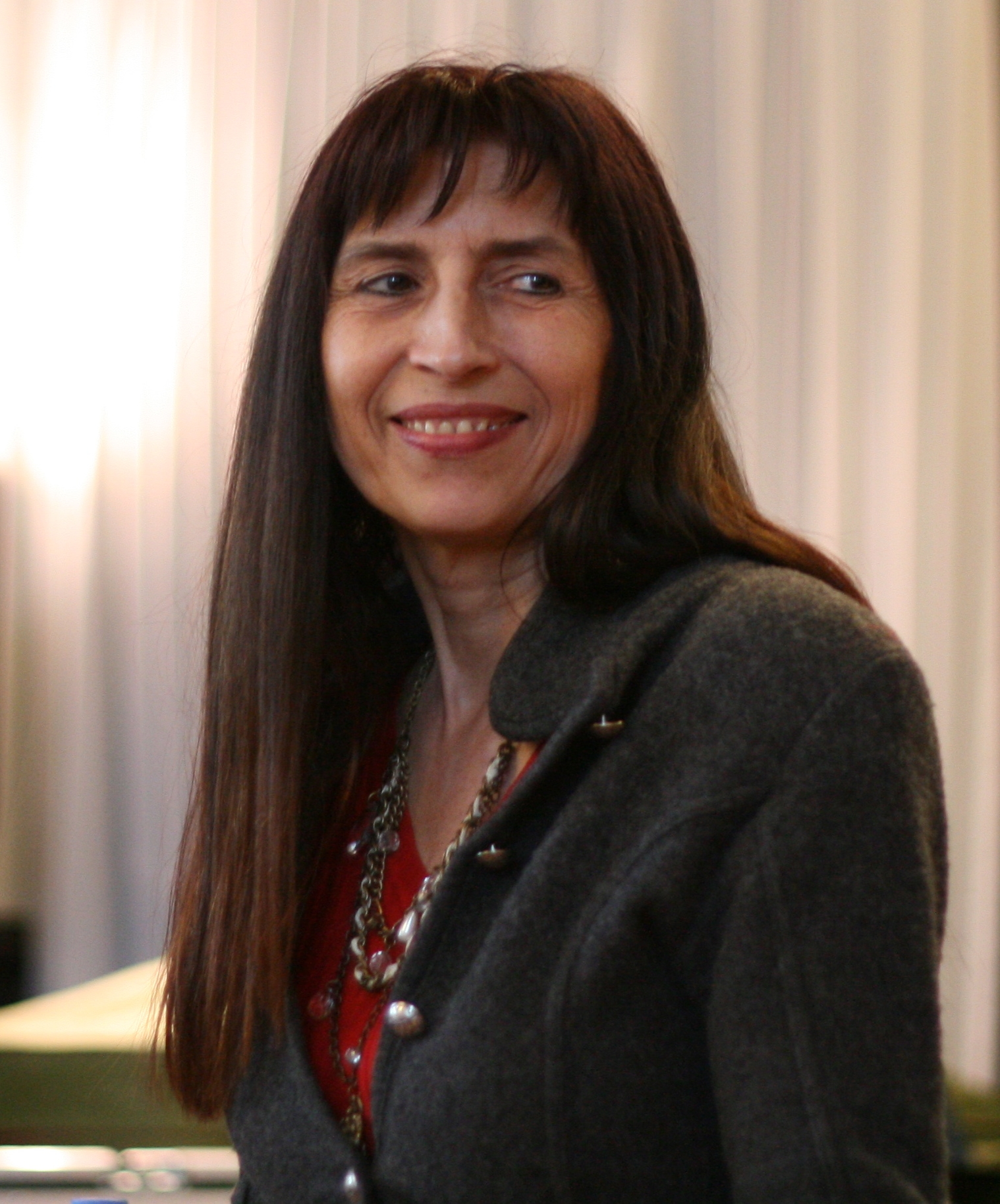 French author, Martine Pouchain, while presenting her book, Chevalier B., to a group of German students.